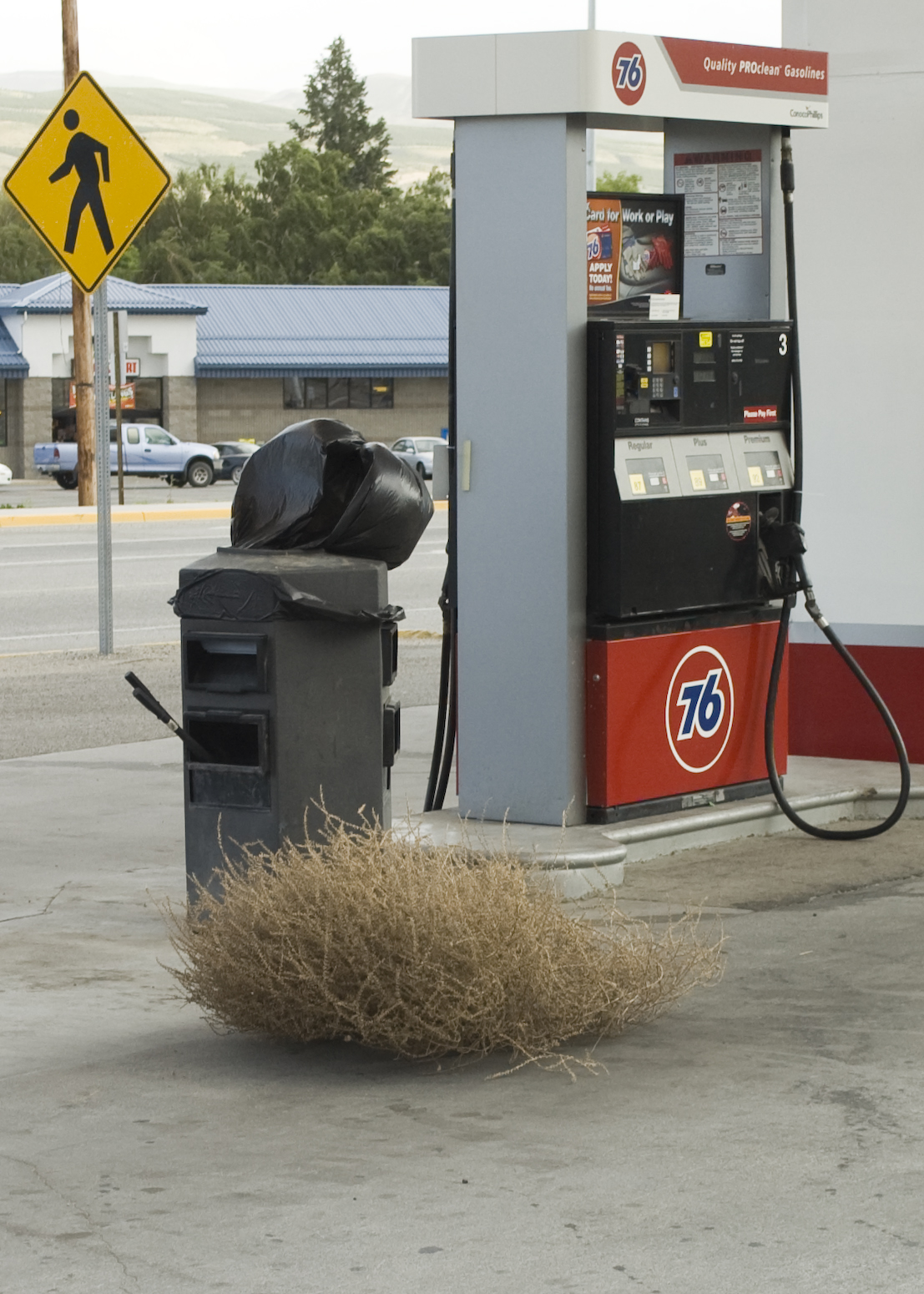 A photograph of tumbleweed in Chelan, Washington.